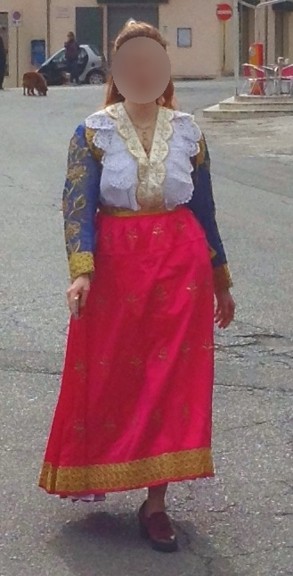 Arbëreshë costume of Frascineto, Calabria